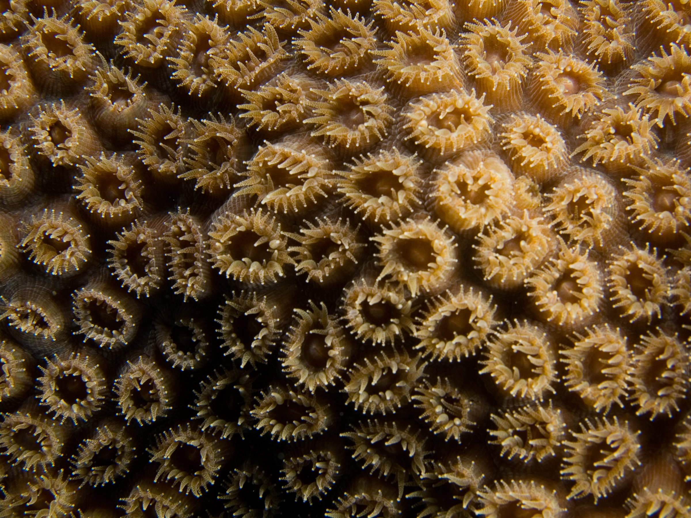 Montastraea cavernosa (Great Star Coral) with polyps partially open